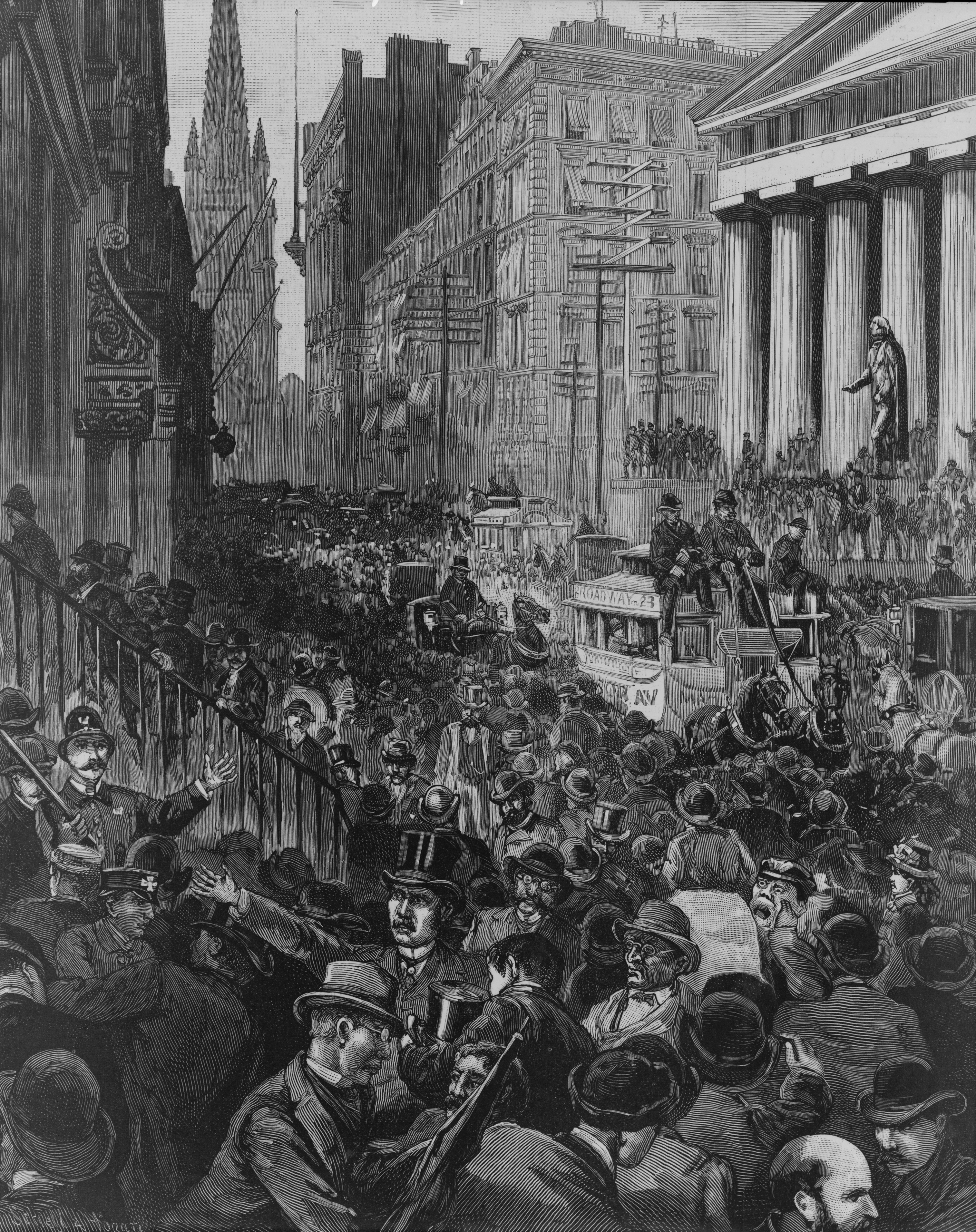 Newspaper illustration depicting the crowds on Wall Street on the morning of May 14 during the Panic of 1884.